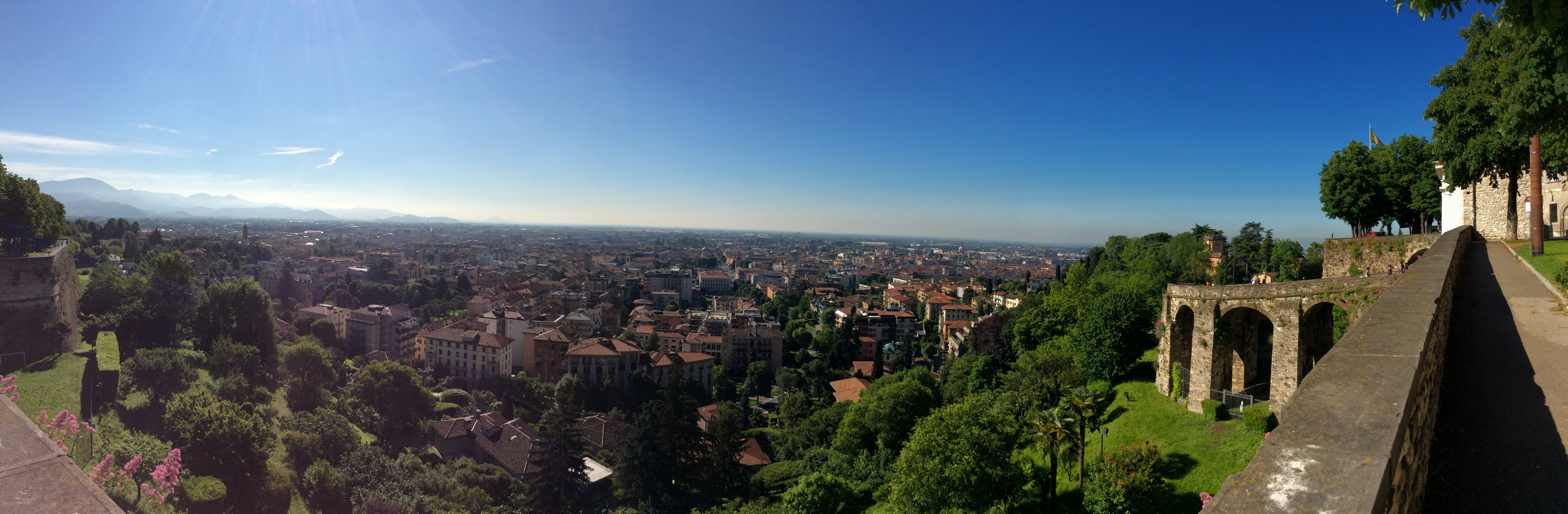 Bergamo Alta Panoramic View